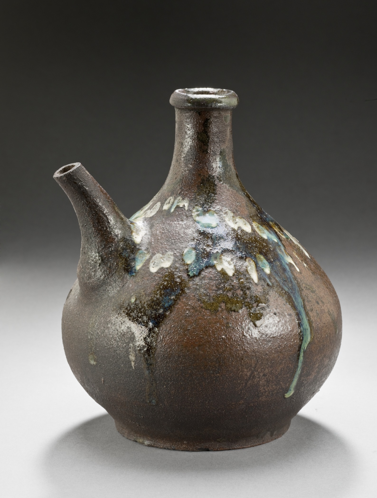 Japan, Edo period, 19th century Furnishings; Accessories Onta ware; stoneware with brown, green, and white glazes Height: 7 3/8 in. (18.73 cm); Diameter: 6 1/8 in. (15.56 cm) Gift of James D. and Veronica H. Roorda (M.2007.226.9) Japanese Art